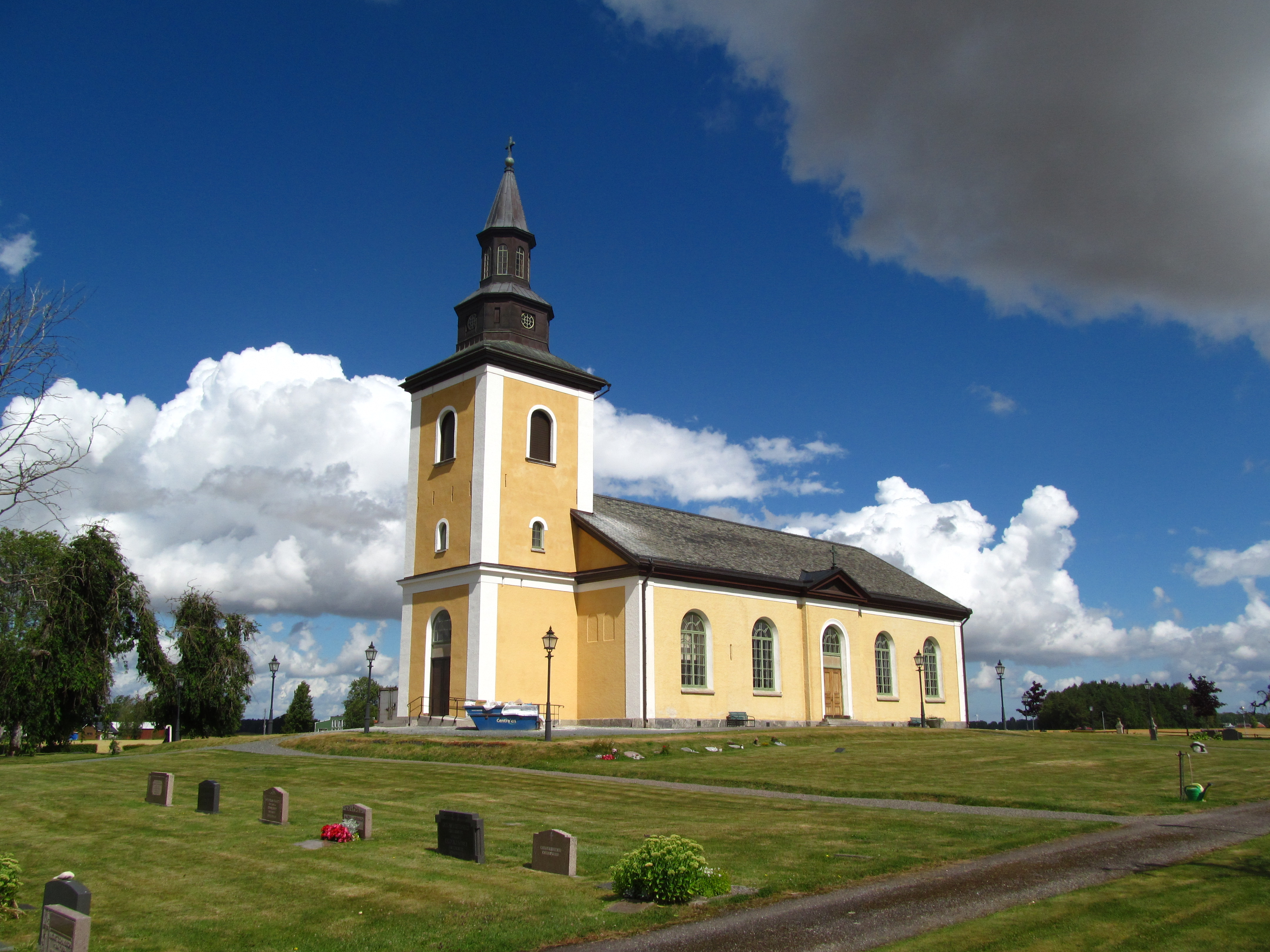 Fridhem church in Längnum Parish, Grästorp Municipality, Viste hundred, the Diocese of Skara, Västergötland, Västra Götaland County, Sweden.